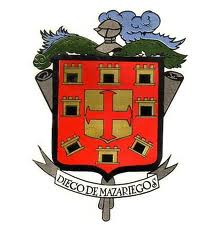 Coat of Captain Don Diego de Mazariegos 1528. Founder of the Cities of Chiapa de Corzo and San Cristobal de las Casas.